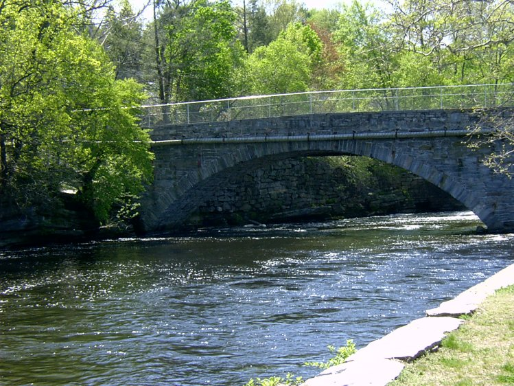 This picture was taken with a Toshiba PDR-2300 digital camera on May 8, en:2004, in Willimantic, Connecticut. It is a picture of the Willimantic River flowing under a bridge that was once part of the town's thread mill, before the part of the mill that the bridge went to closed/burned down/fell down. Originally 1600x1200, the image was scaled down and saved at a quality of 0.85 using The Gimp.